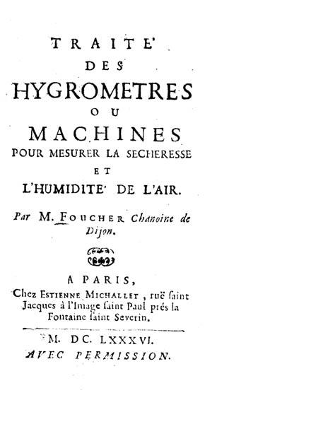 Title page